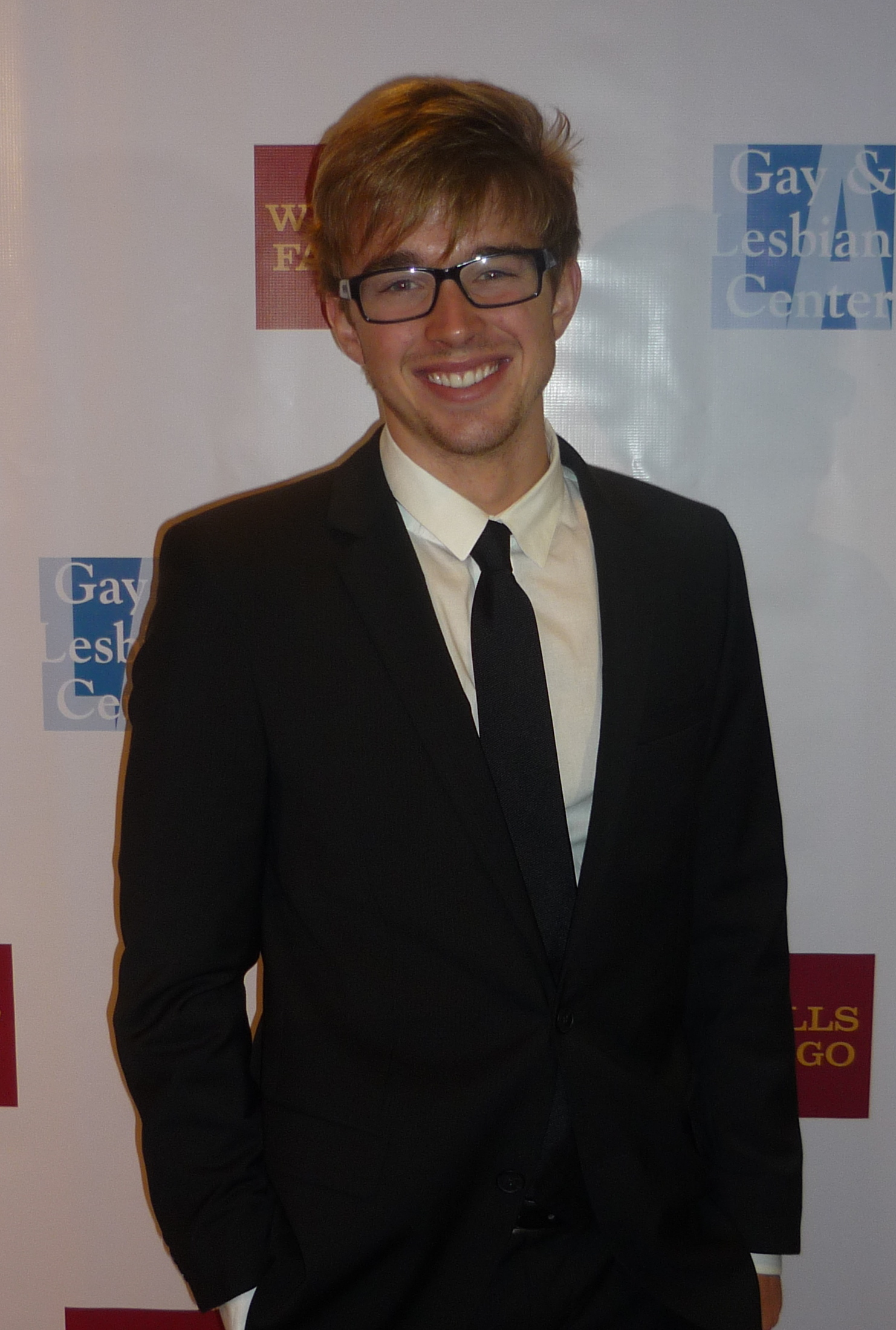 American actor Chandler Massey at the Gay and Lesbian Center event 2008